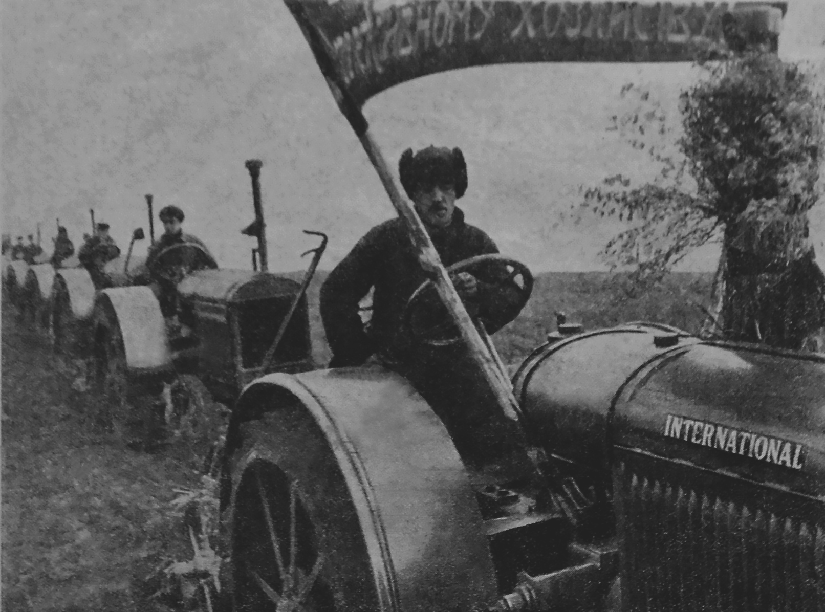 The choice of Soviet industrial planners was McCormick-Deering 15-30 (International Harvester), locally produced as KhTZ 15-30 in Kharkiv and STZ 15-30 in Stalingrad. The technology transfer, in forms of import and local productions of tractors, was technological backbone of the collectivization and industrialization programs during the first five-year plans. According to Antony C. Sutton “…in agriculture the transfer of Western technology was not notably successful. The hostility of the peasant, the collectivization of agriculture, the undue attachment to the imaginary massive economies of scale, and the misunderstanding of the factors making for success in Western large-scale agriculture made for ineffective transfer.”